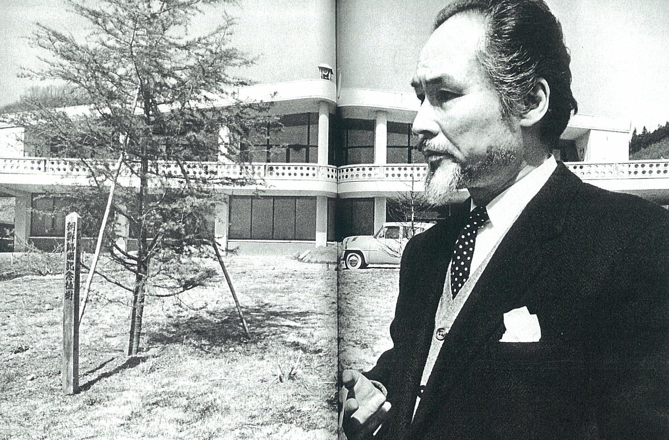 Seiichi Shirai is a Japanese architect. The building in his back is Matsuida town hall he design in 1959.